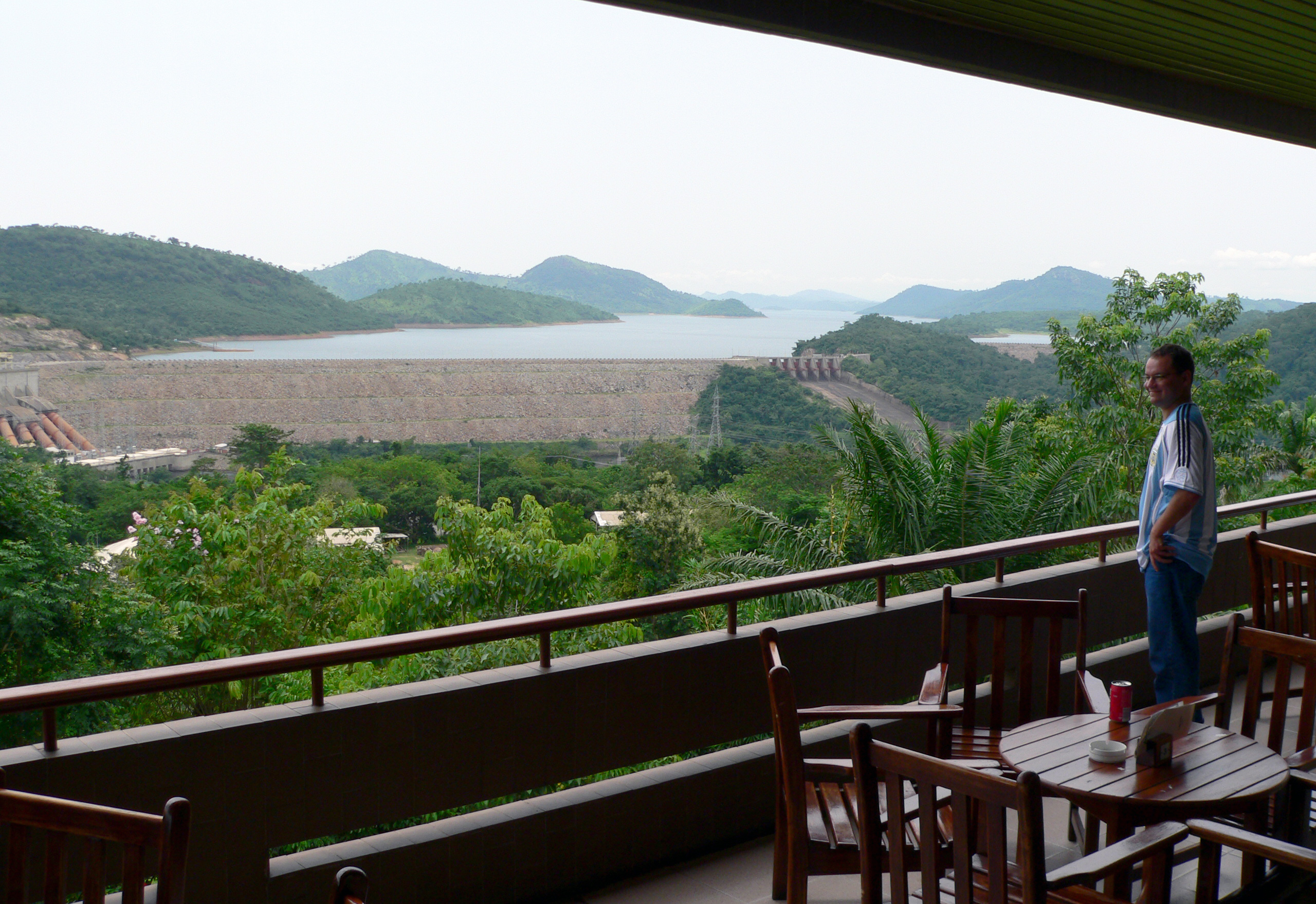 Akosombo dam